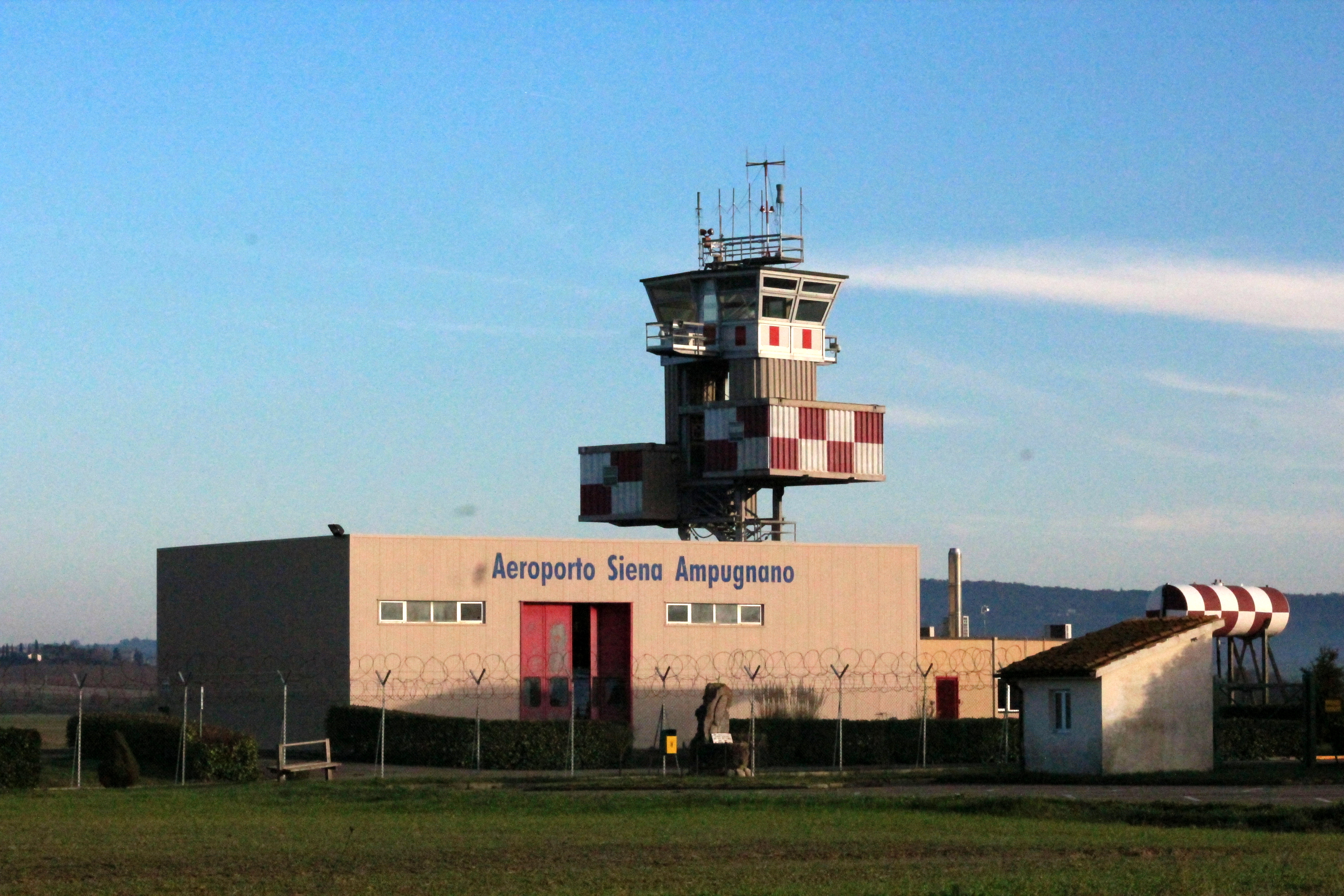 Siena-Ampugnano Airport, located in Ampugnano, Territory of Sovicille, Province of Siena, Tuscany, Italy